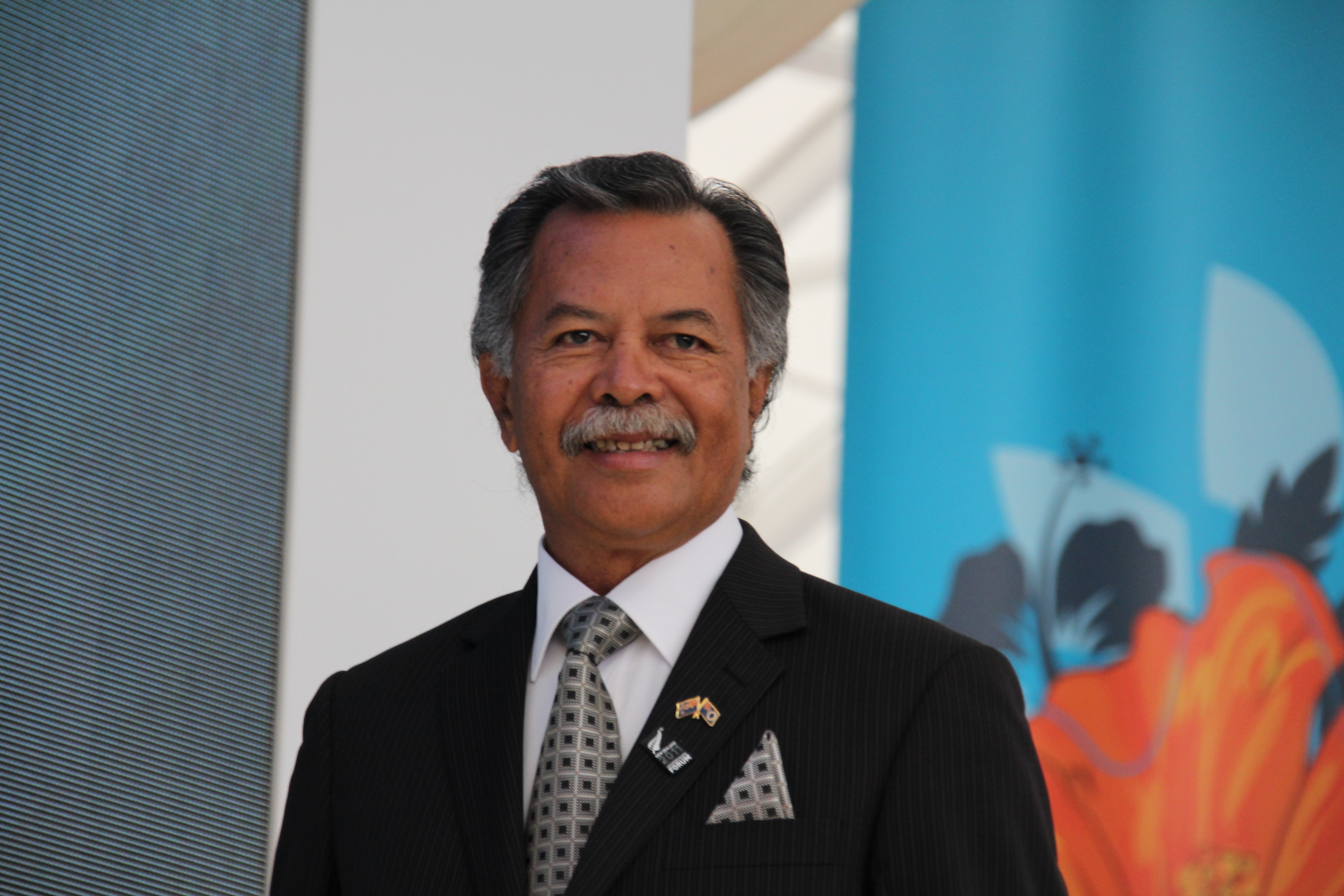 The Prime Minister of the Cook Islands, Henry Puna, at the 42nd Pacific Islands Forum in Auckland